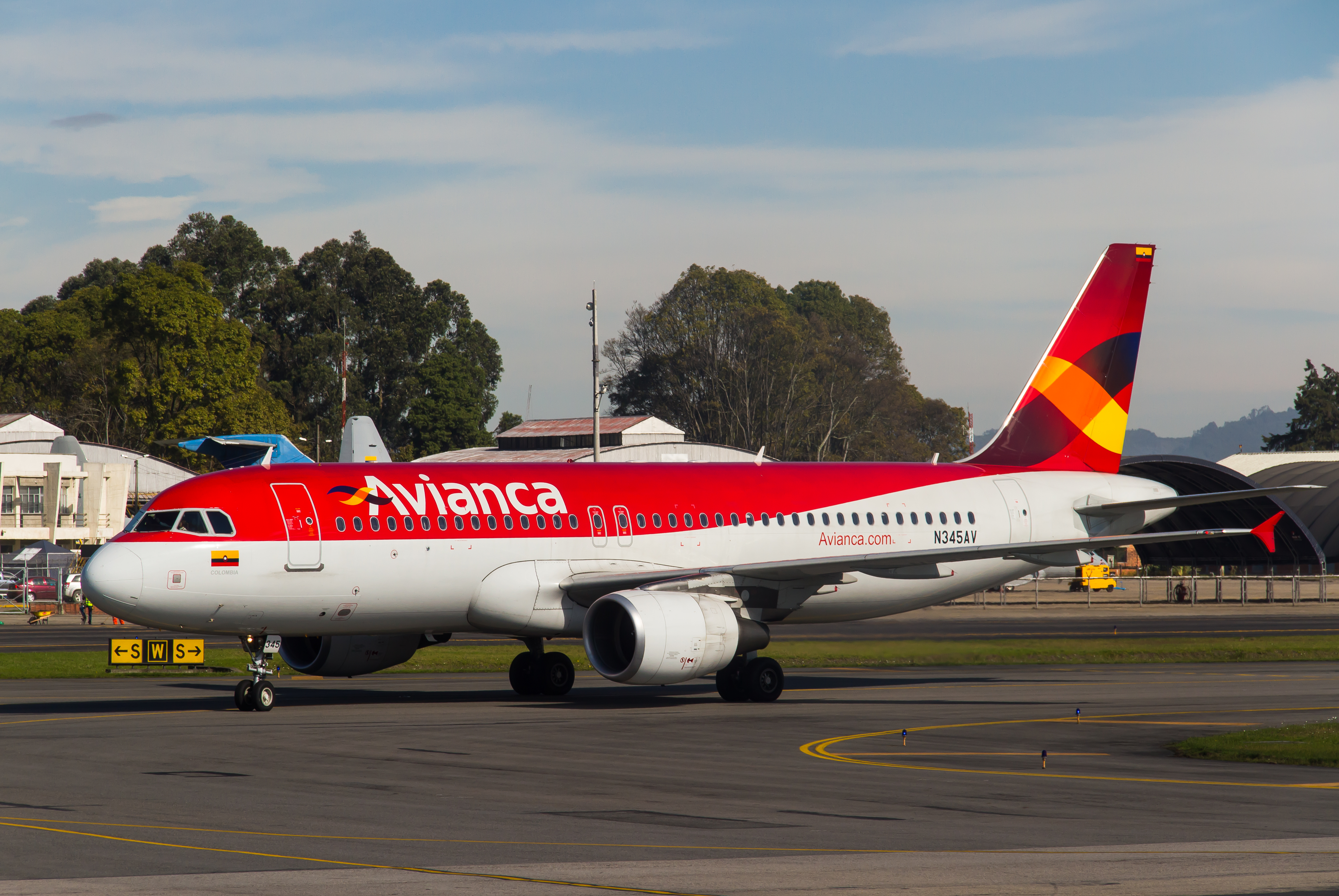 Serial number 4345 Type 320-214 First flight date 11/06/2010 Test registration F-WWBI Engines 2 x CFMI CFM56-5B4/P